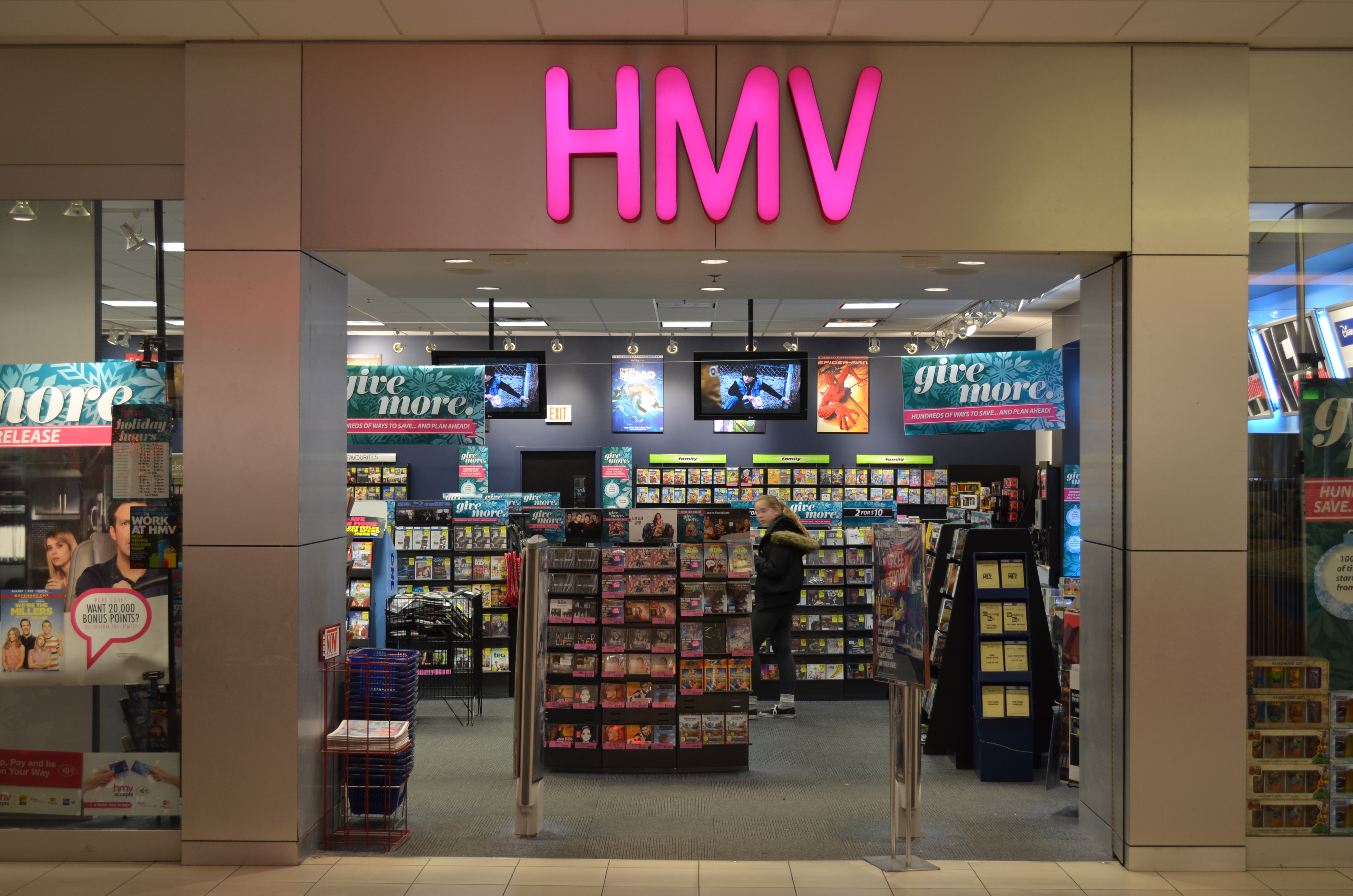 HMV at Promenade